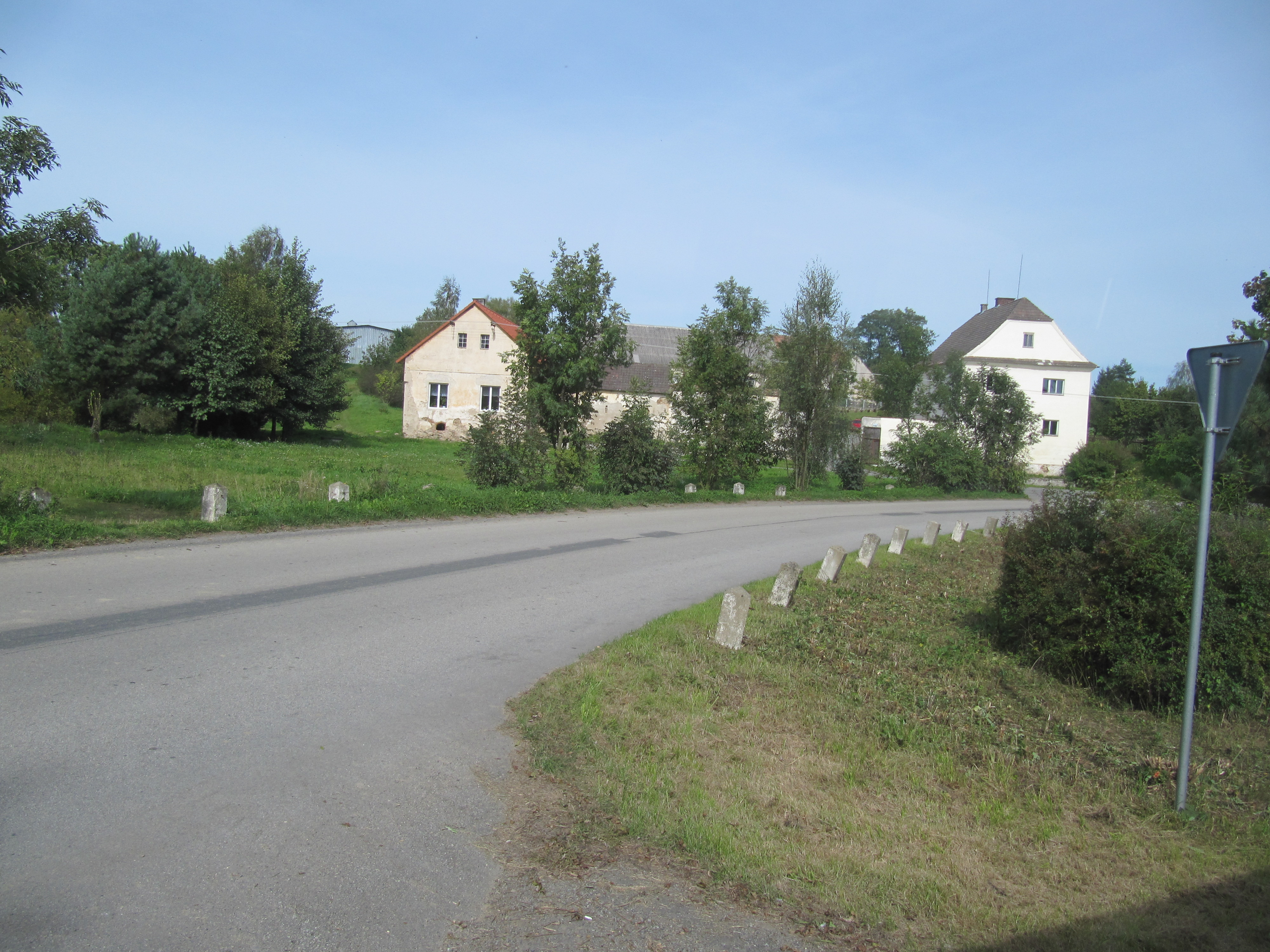 Chotoviny, Tábor District, Czech Republic, part Jeníčkova Lhota. Homestead in the village center.